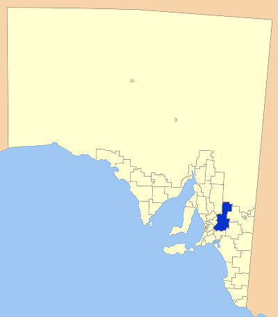 Map of South Australia showing the location of the Mid Murray Local Government Area. A modification of GDFL map by Astrokey44; found here: File:SA_LGA_blank.png